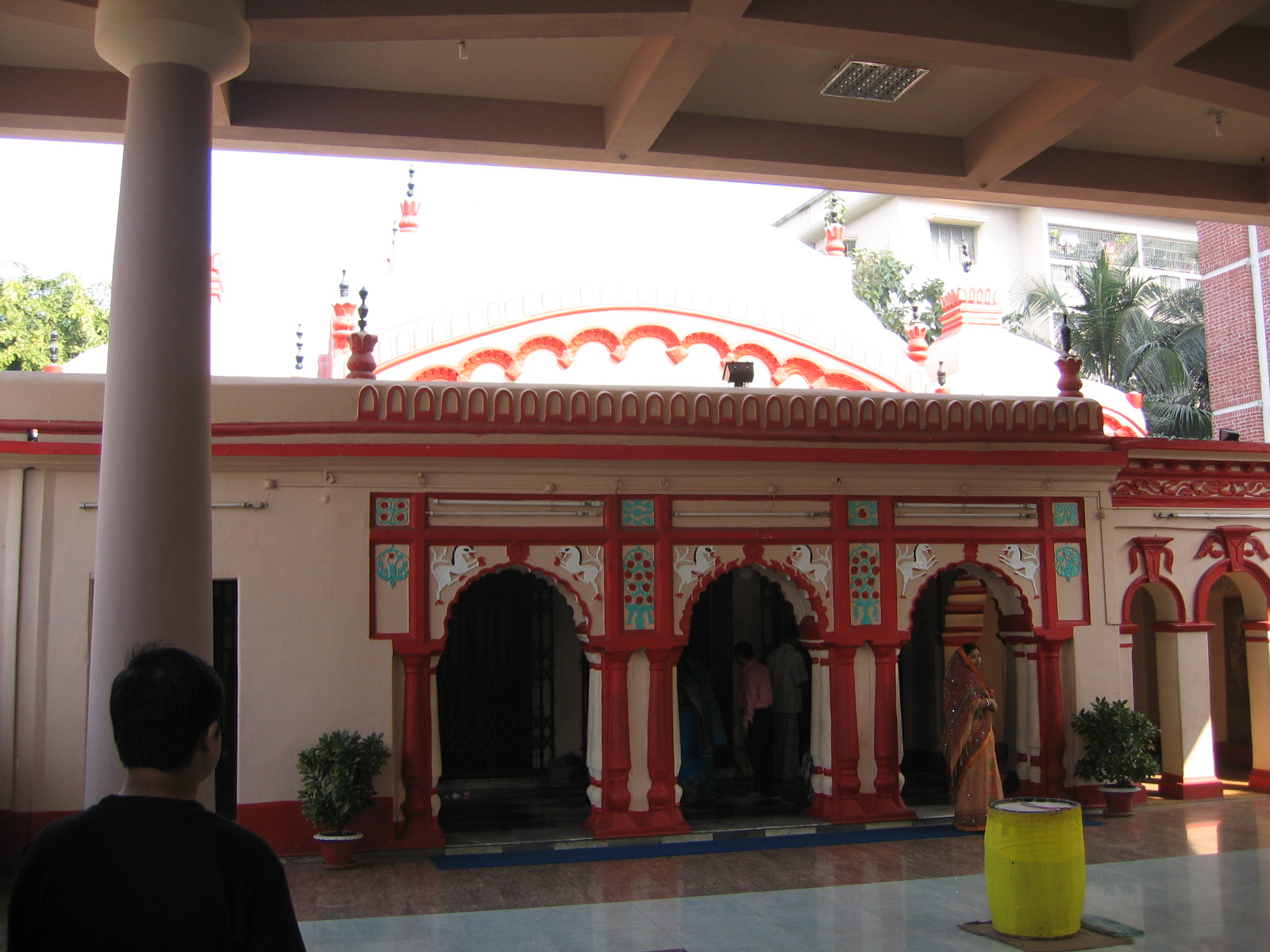 Main temple structure at the Dhakeshwari Temple complex